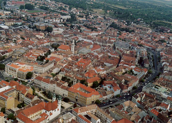 Sopron - Győr-Moson-Sopron megye - Hungary - Europe